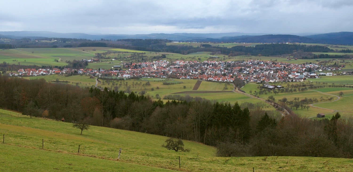 Wäschenbeuren as seen from Hohenstaufen